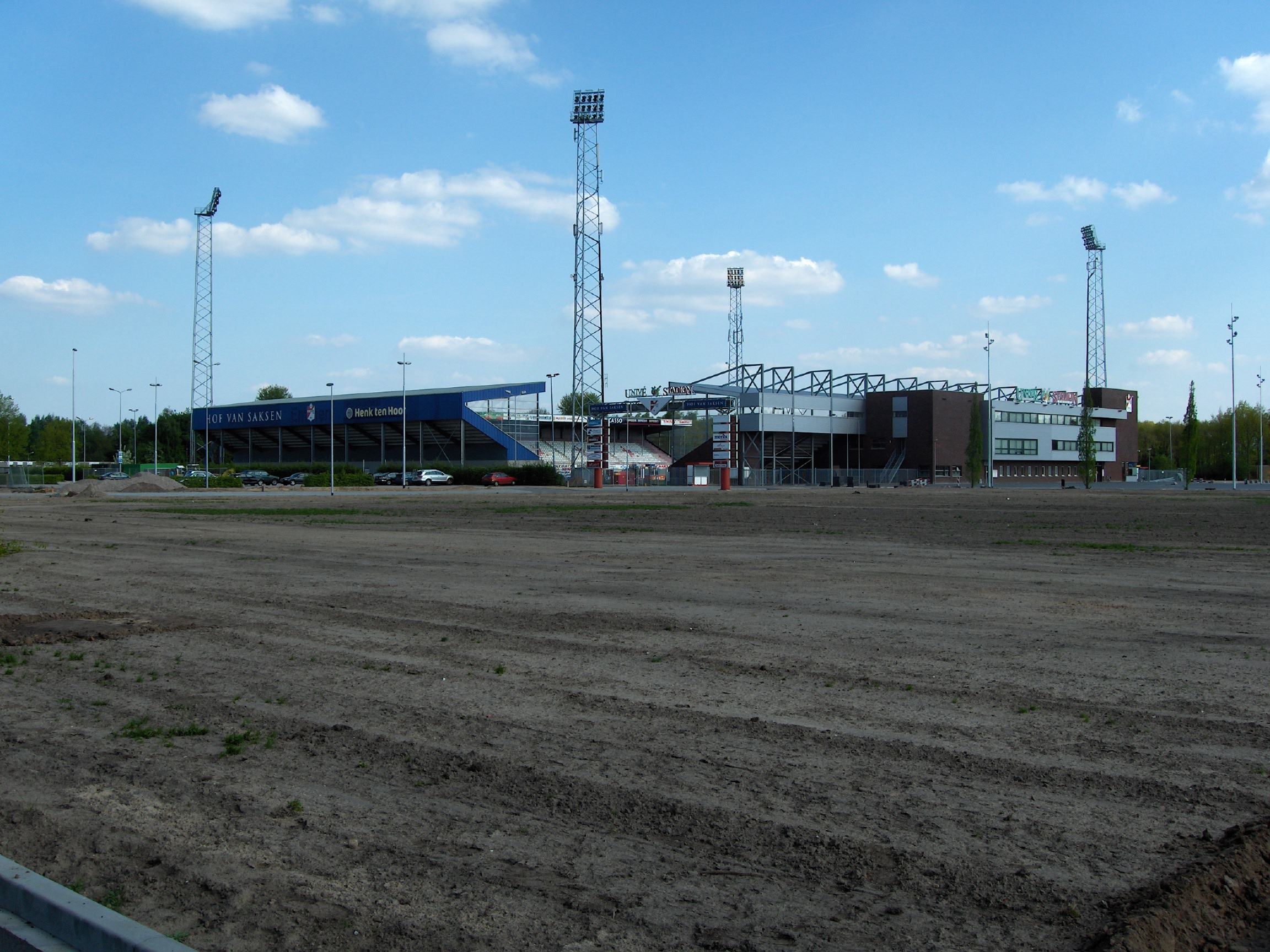 Univé_Stadion in Emmen, the Netherlands